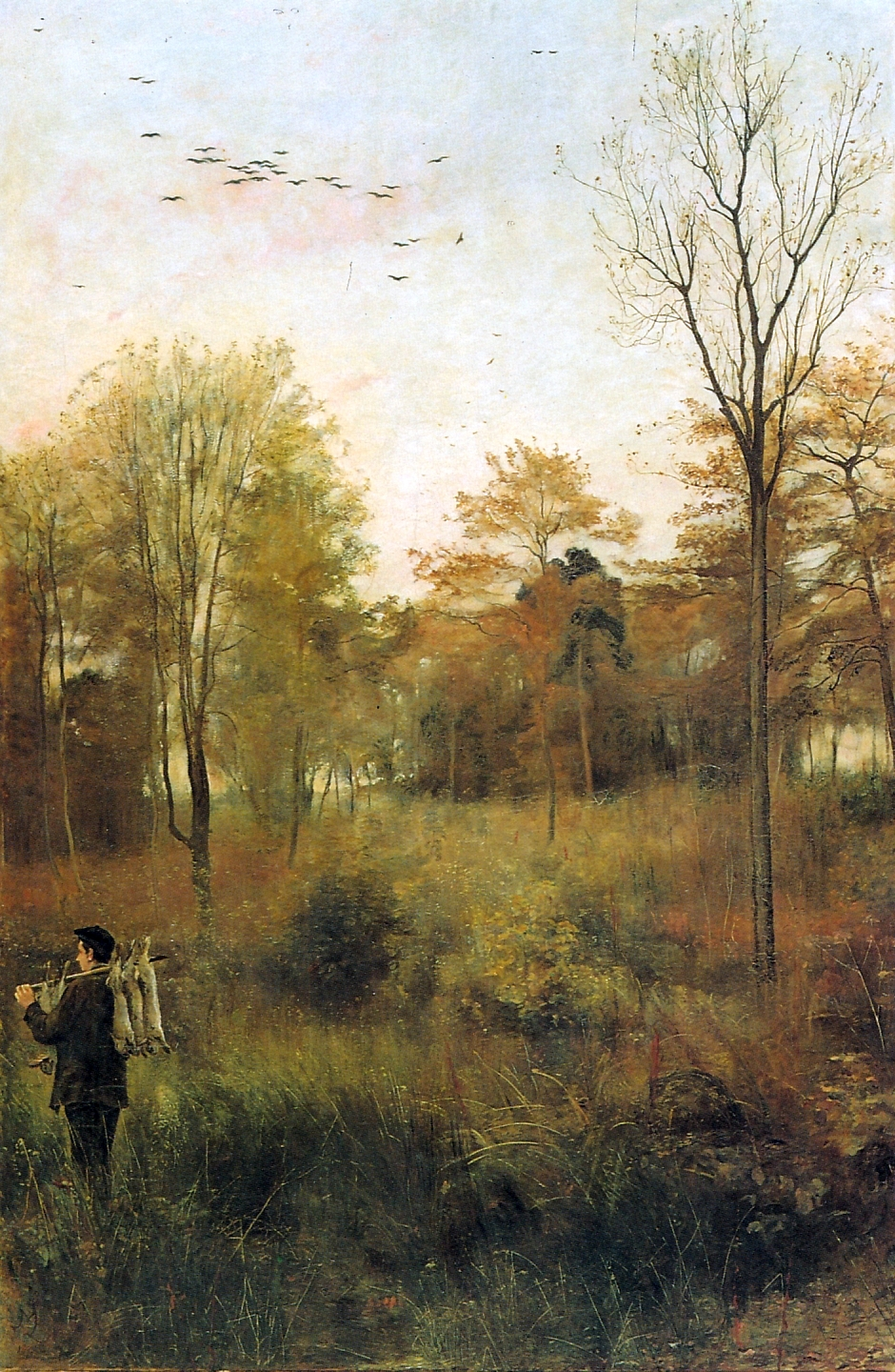 Near Home